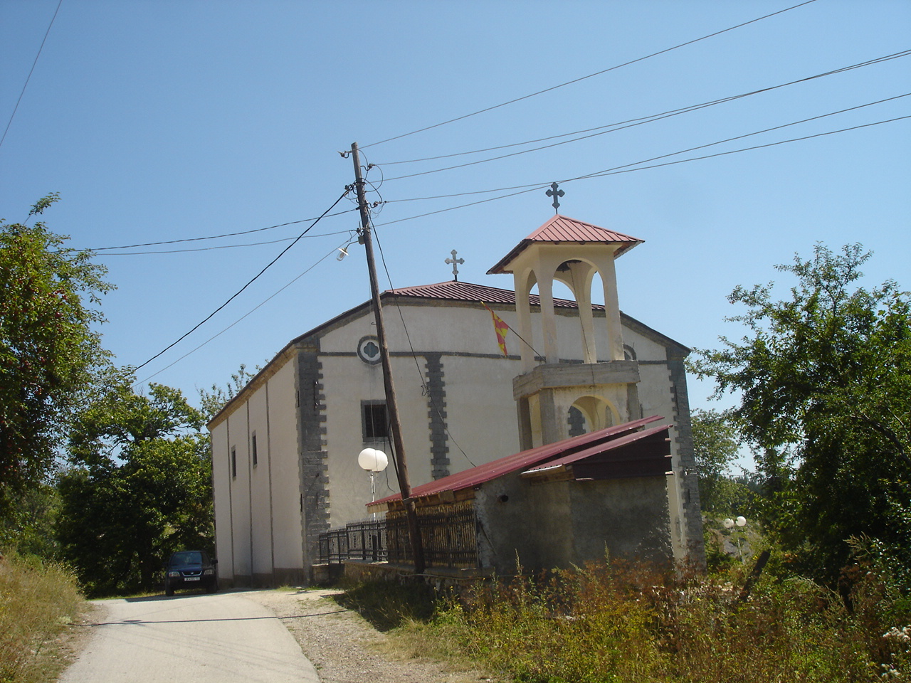 The church in Gorna Belica village on Jablanica mountain, near Struga, Macedonia